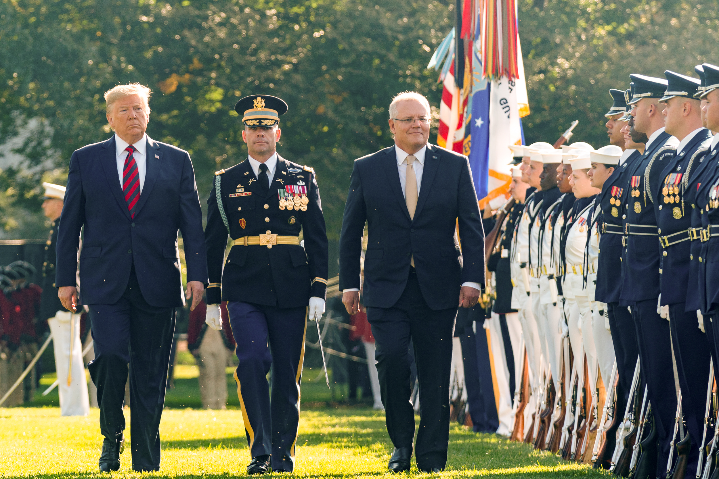 President Donald J. Trump and Australian Prime Minister Scott Morrison review troops during the State Visit Friday, Sept. 20, 2019, on the South Lawn of the White House. (Official White House Photo by Shealah Craighead)